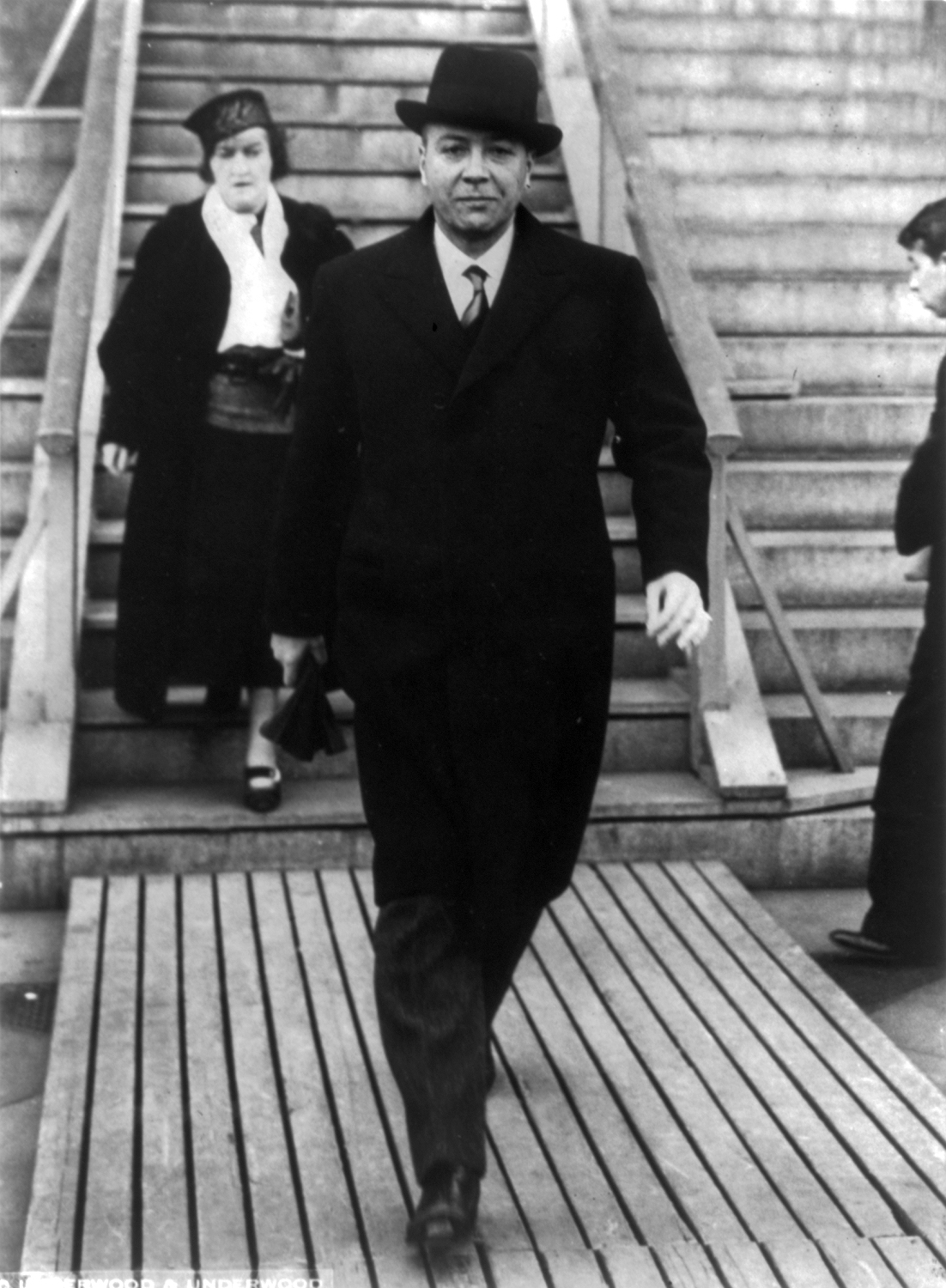 William Christian Bullitt, Jr., American diplomat, walking toward camera. Other people in picture are unidentified.